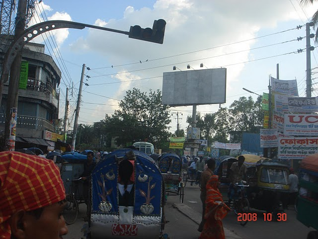 Mymensingh Town